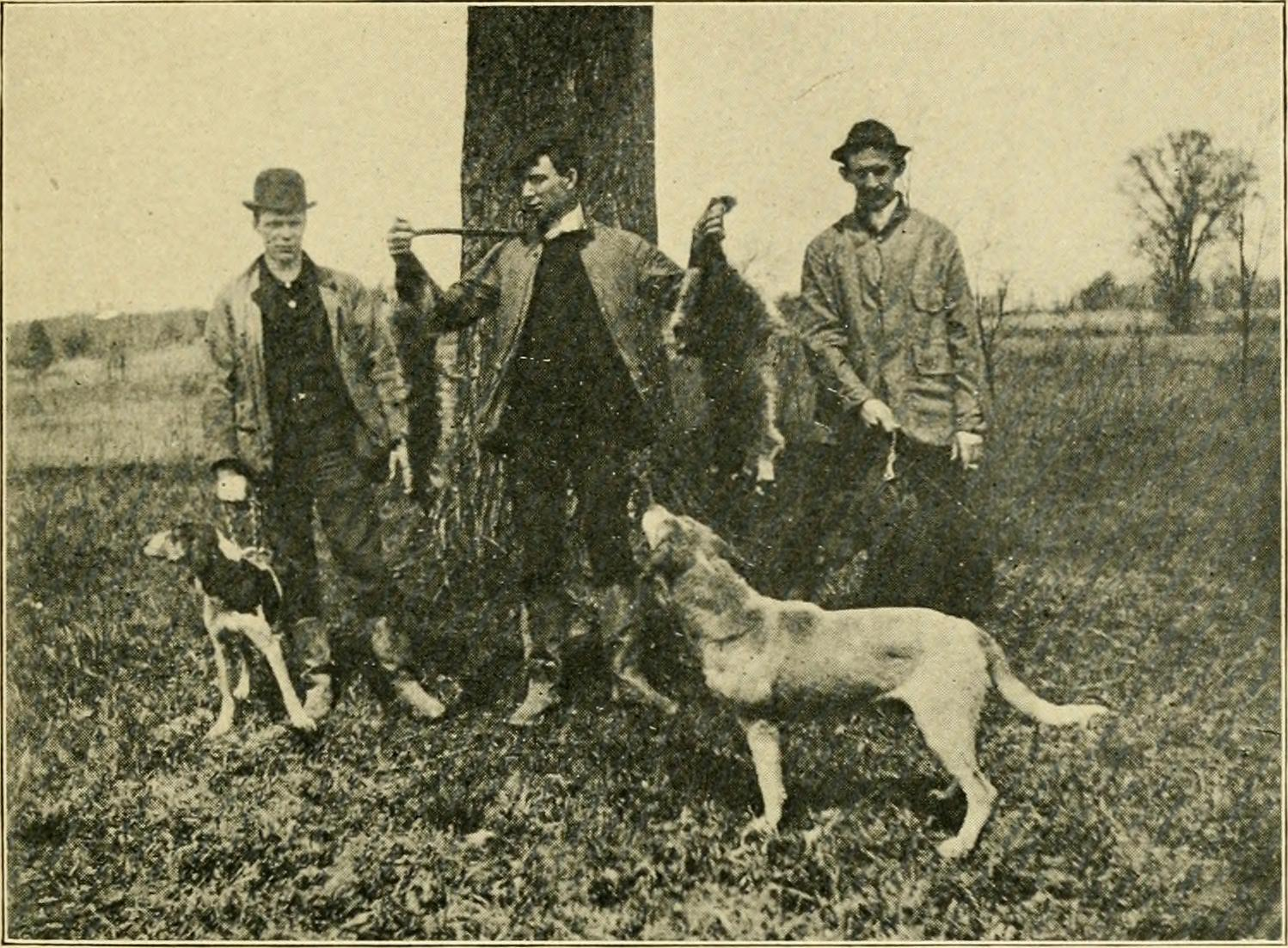 Title: Life in old Virginia Year: 1907 (1900s) Authors: McDonald, James Joseph, 1844- Subjects: Virginia--History--Colonial period, ca. 1600-1775 Publisher: Norfolk, Va. : Old Virginia Publishing Co. Text Appearing Before Image: he new comer. If the road leading to the mansion were winding, so that ashort turn brought the stranger in view suddenly, within afew yards of the house, one might hear the master or mistressgiving orders to the servant: Sally, run out and see what those dogs are barking at!and Sally would then hunt for a stick or an oyster shell to• chunk back the dogs who seemed fierce as wolves: Git back fum yere, yo yaller debbils, fore I chunk yorehide offen yo, was Sallys forceful warning, at which thedogs would slink away, and pay no more attention to thestranger, other than to smell of his heels as he gladlyadvanced into the house beyond their reach. To one unaccustomed to such scenes, and ignorant of thefact that barking dogs seldom bite, great credit would begiven Sally for saving their life. Since the Civil War there are few large packs kept as thefoxes and deer have in many places become entirely extinct,and the people have become too industrious to spend muchtime as formerly in hunting. Text Appearing After Image: A Successful Coon Hunt.